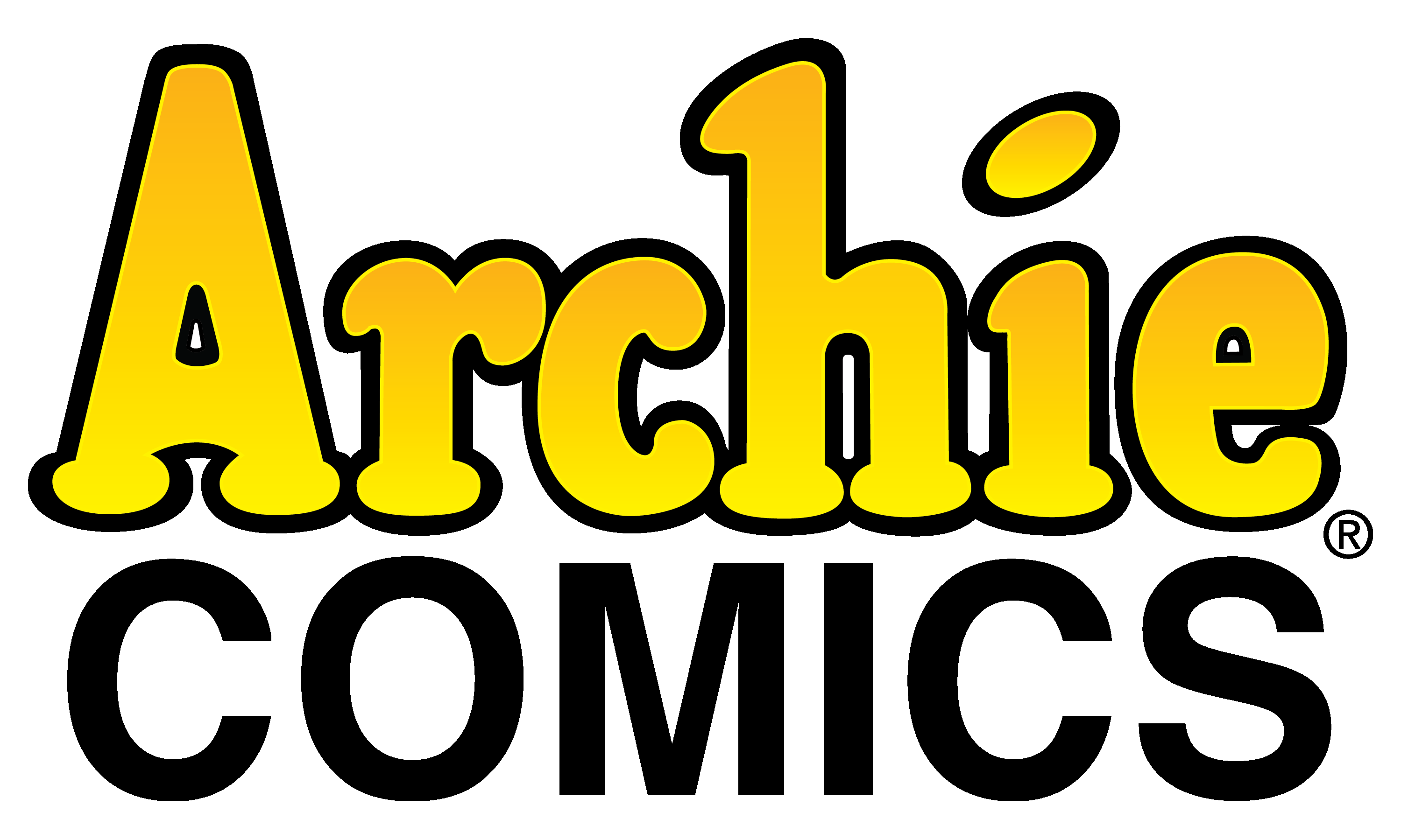 Archie Comics logo